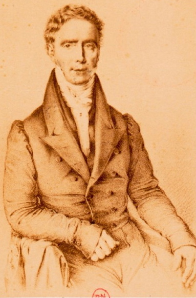 photograph (ca 1865) by Charles Jacotin (18??-18??) of a lithography (ca 1793) of Domenico Dragonetti . The original is kept at the Bibliothèque nationale de France. Original size of the photography 7.5 x 5 cm